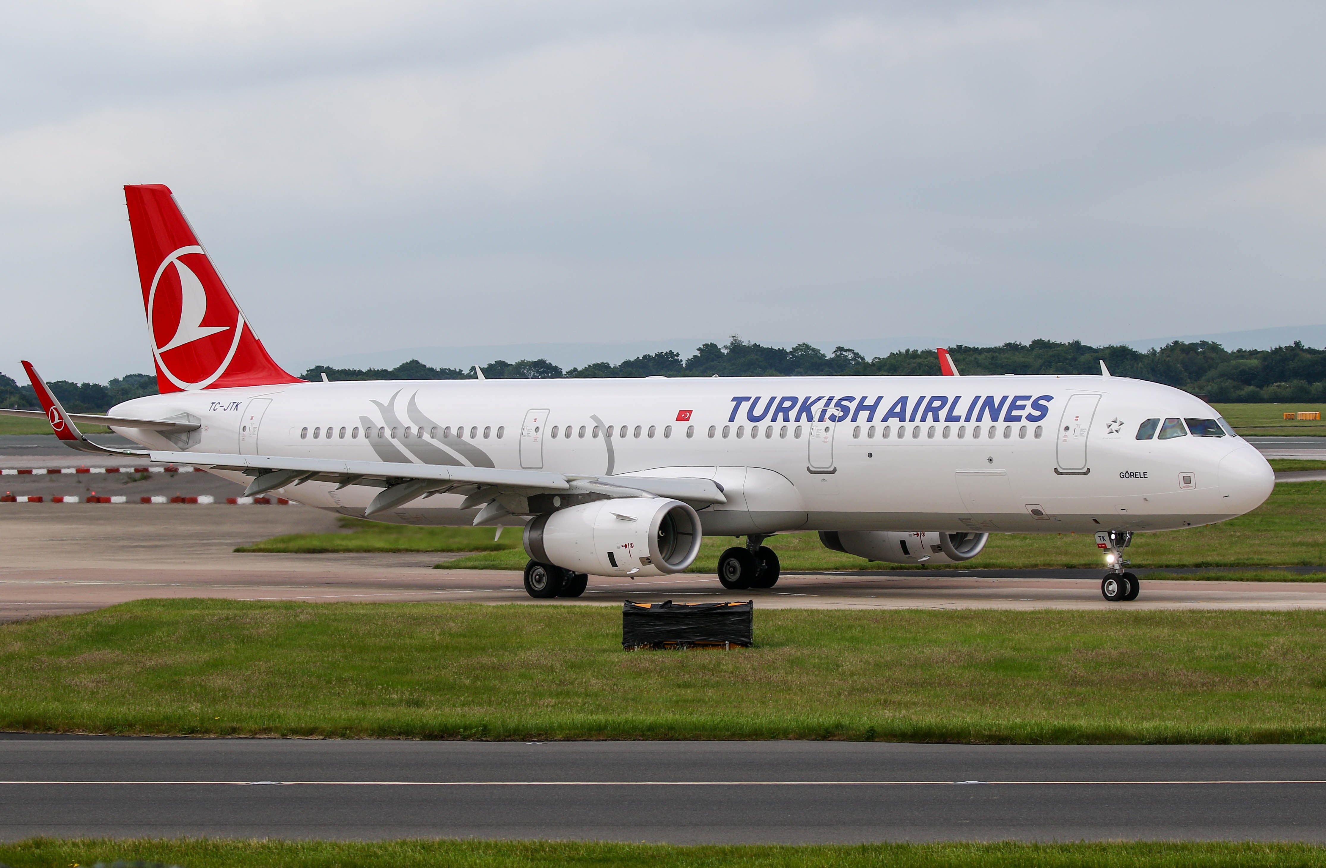 Turkish Airlines A321